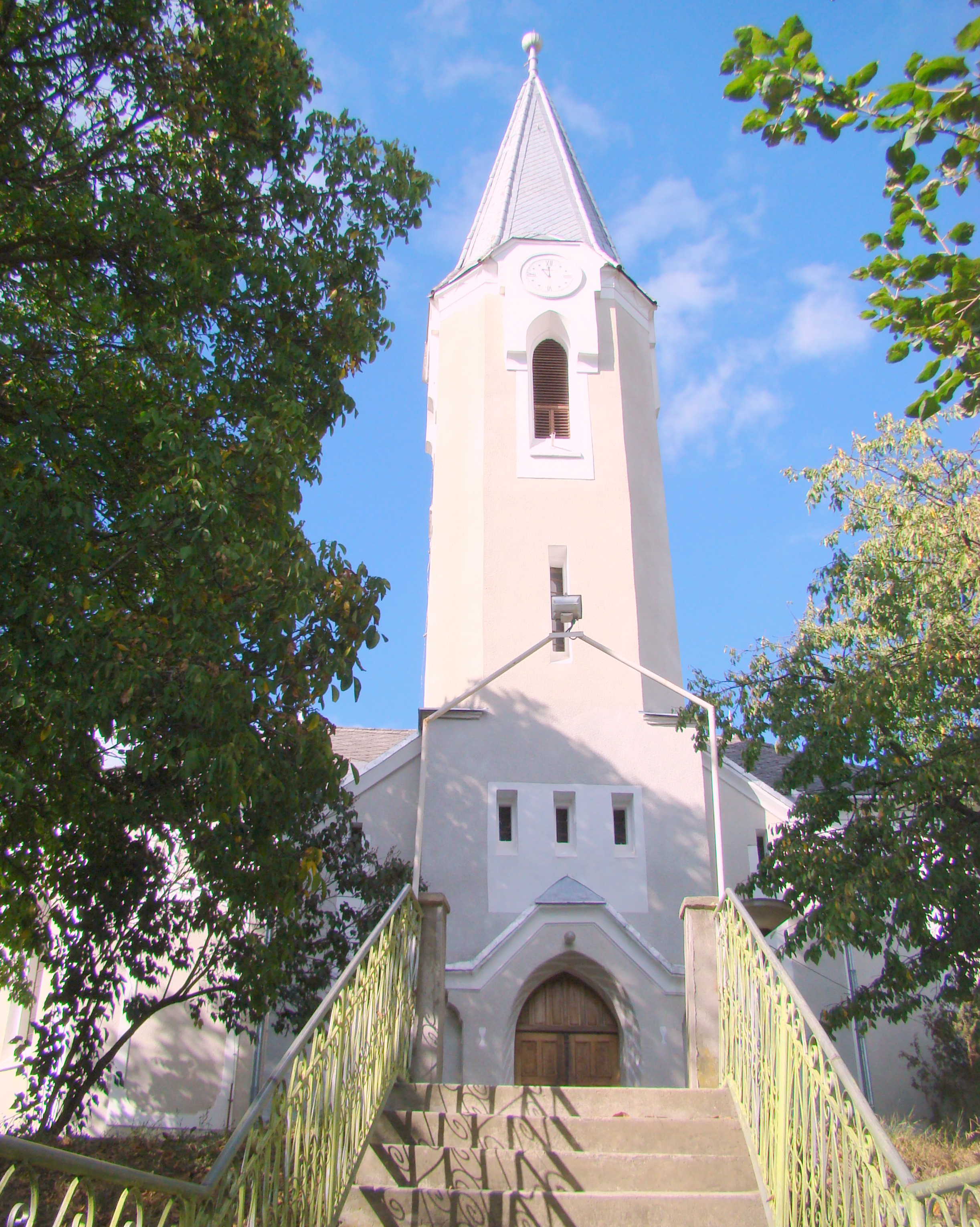 Reformed church in Malin, Bistrița-Năsăud County, Romania